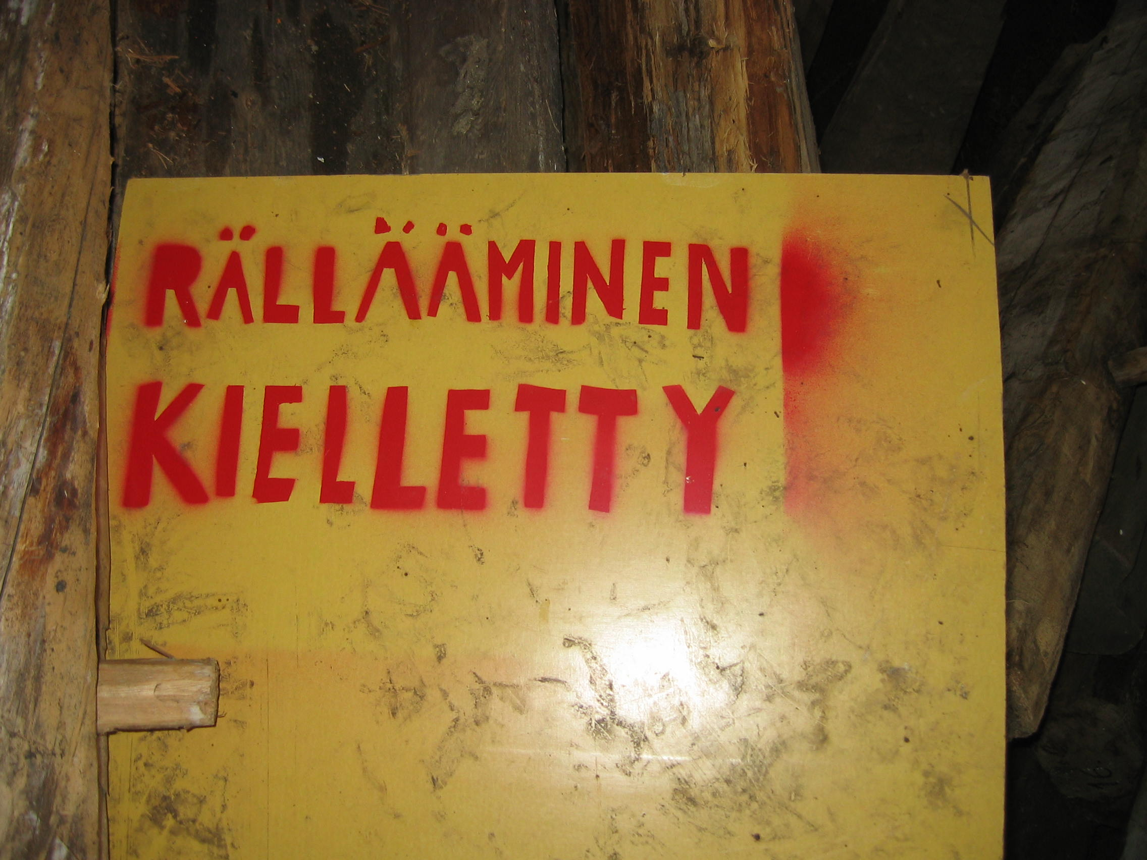 A self-made sign asking for stopping noise caused by recless driving.